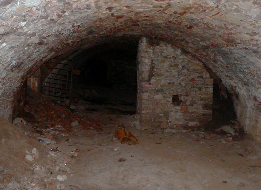 Vault of Calenberg Castle. Right: stone wall of the castle well. Lower Saxony, Germany